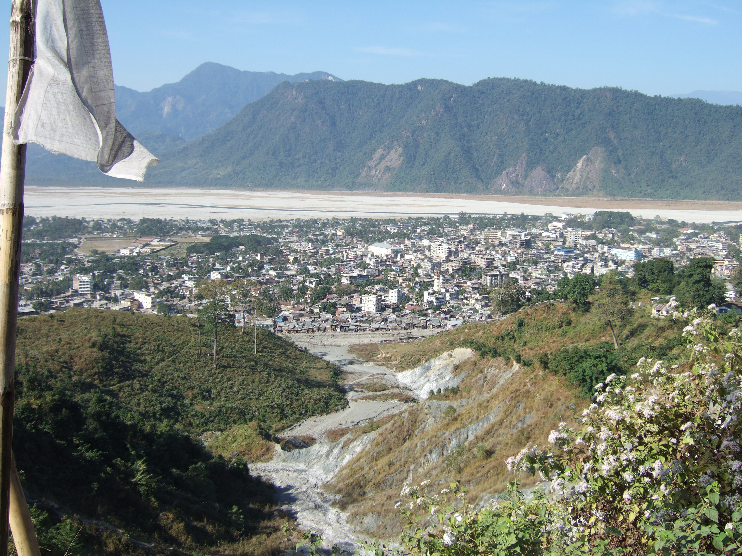 Town of Phuentsoling, Bhutan